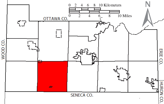 Made by the US Census and modified by User:Frank12